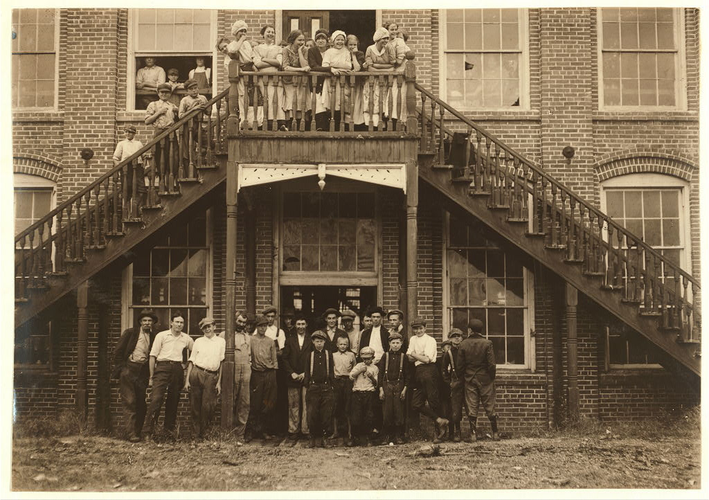 View of children working in the Tolar, Hart and Holt Mills, Fayetteville, North Carolina. Photo courtesy of the Library of Congress, Washington, D. C.